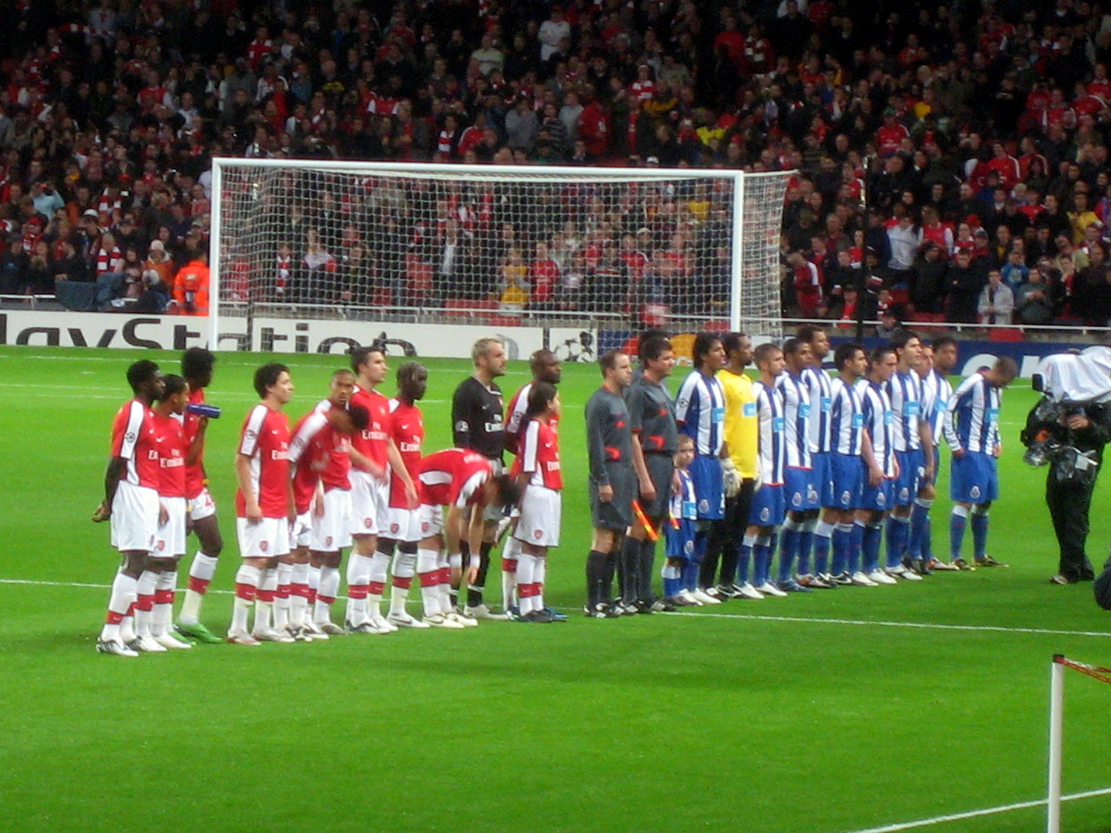 Image of the teams FC Arsenal and FC Porto before a Champions League match